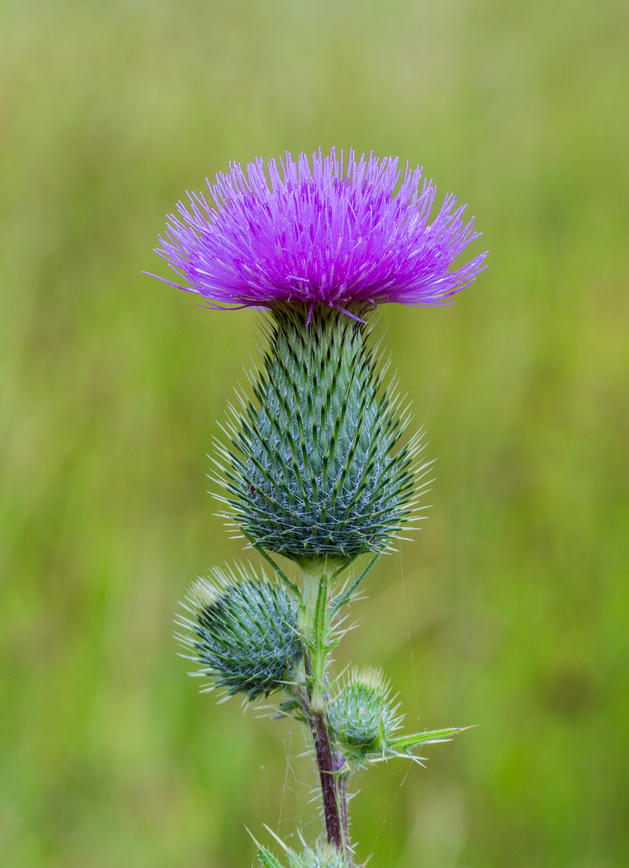 Beautiful inflorescence of a Cirsium vulgare.